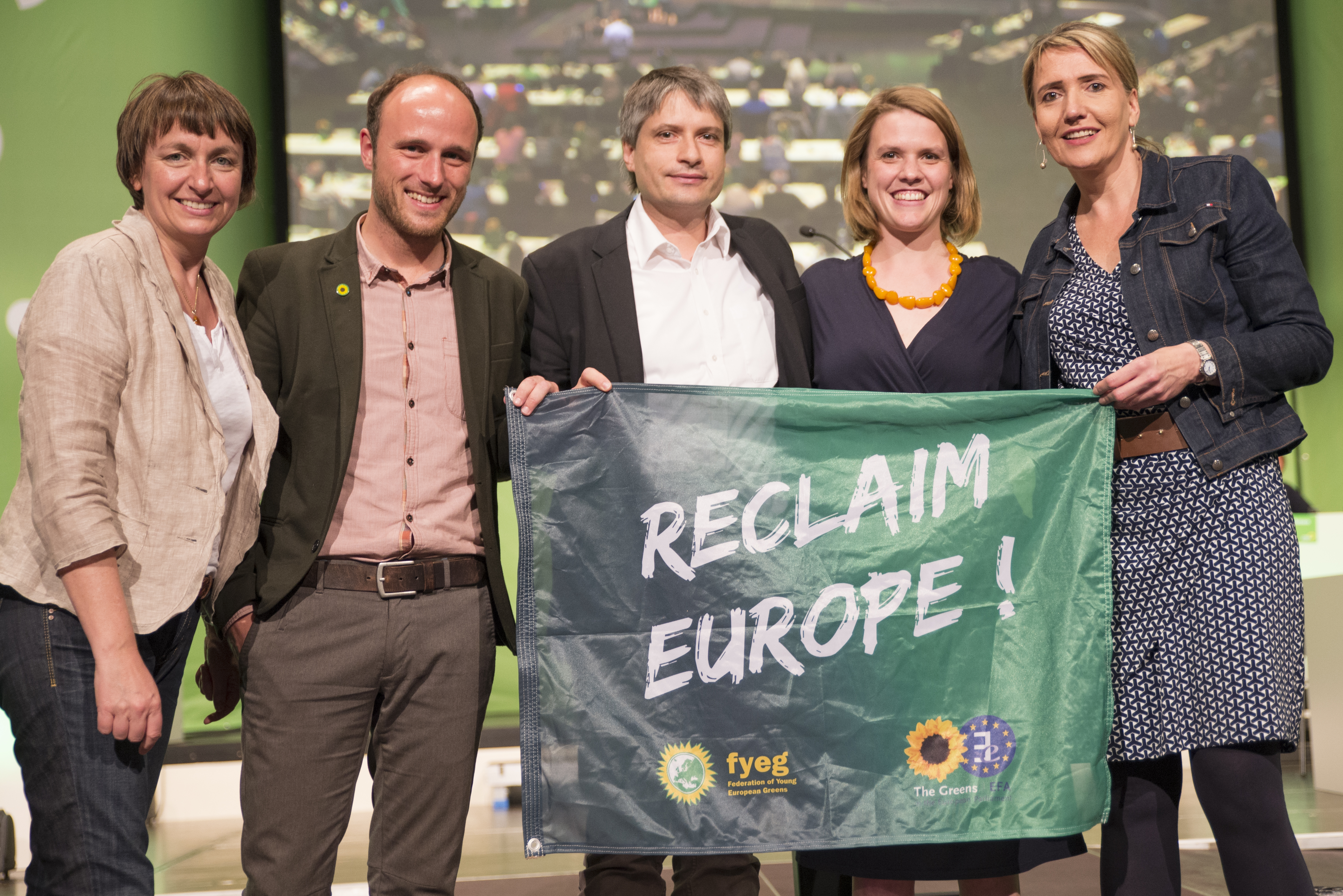 Stadt, Land, Grün - Landesparteitag in Siegburg Am 14. und 15. Juni findet der Landesparteitag in Siegburg statt. Schwerpunkte sind Industriepolitik, die ländlichen Räume in NRW, sowie die Wahlen des Landesvorstandes.